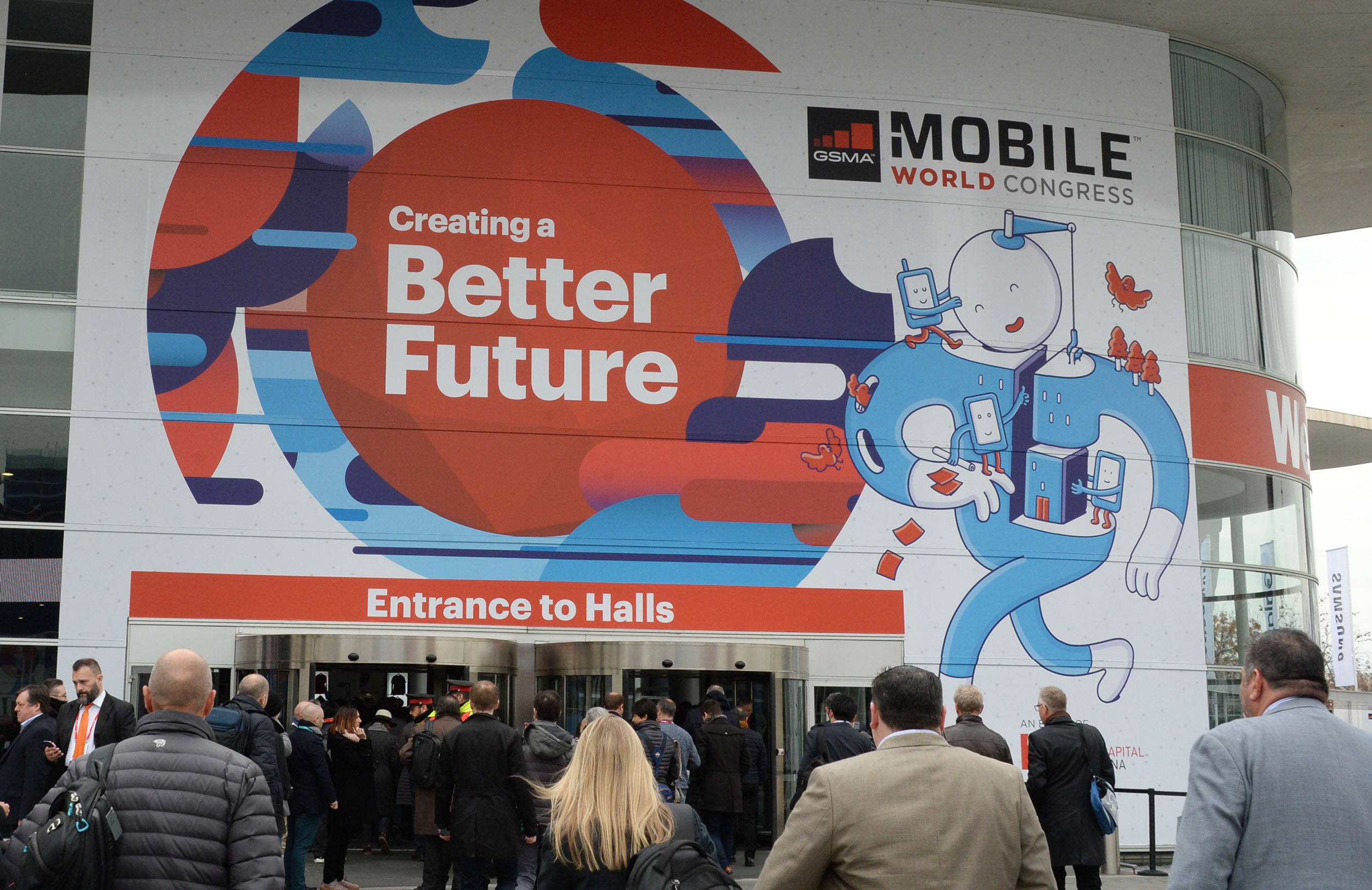 Mobile World Congress 2018